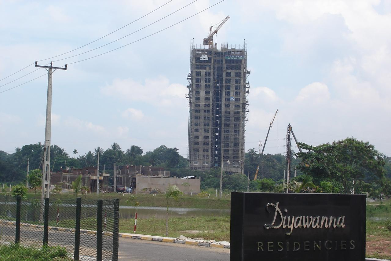 Upmarket residences under construction.